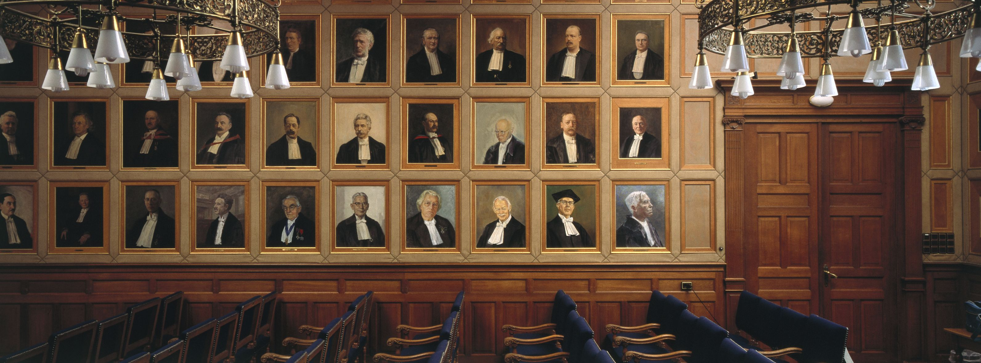 the Senate room in the Academy Building of the University of Groningen